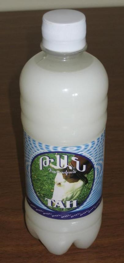 Photo of a bottle of Tahn / Tan (Doogh) in Armenia